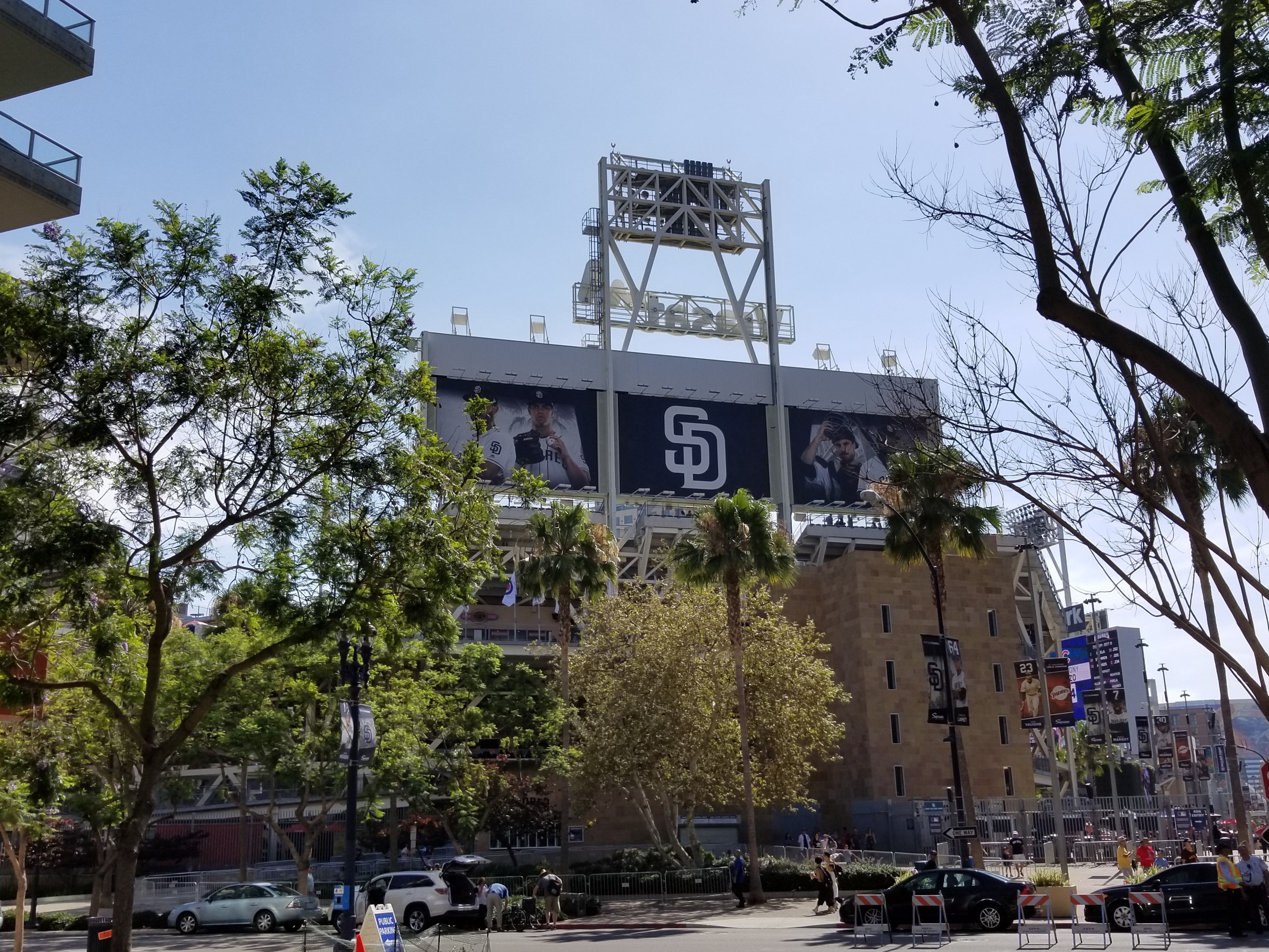 Petco Park (San Diego, California)